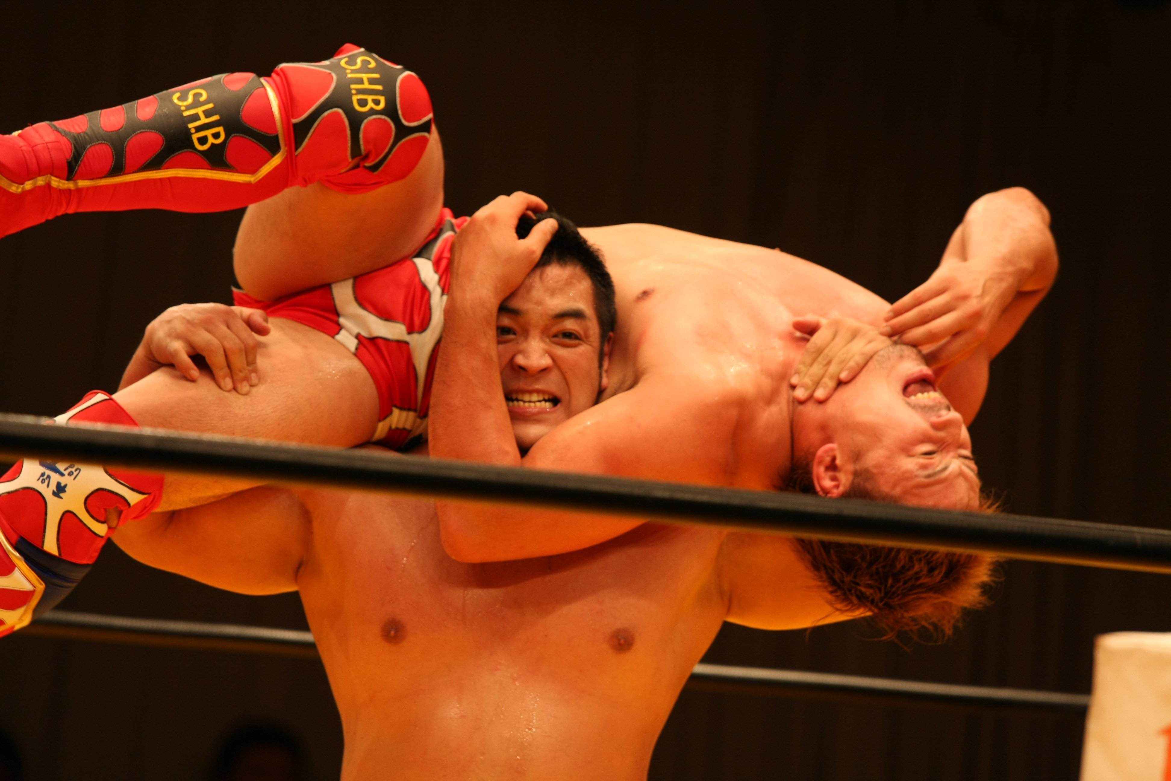 Ryouji Sai vs. Daisuke Sekimoto (standing) at the "ZERO1 Wrestler's Grand Prix 2009 Fire Festival ~The Ambition of Glory~" in Korakuen Hall on July 25, 2009.